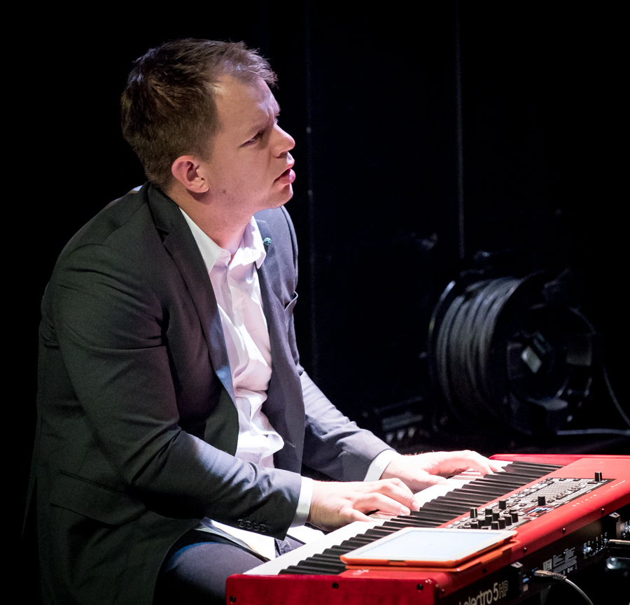 Lars Støvland with Pernille Øiestad at the stage in Belleville at Soria Moria. The concert took place on 06. October 2017. This was the release concert for Øiestad's debut album "Helt på ekte".Lineup:Pernille Øiestad (vocal)Lars Støvland (piano)Eirik Naess (guitar)Hans Marius Skogheim Indahl (drums)Torjus Eggen (double bass)Magnus bakken (saxophone)Silje Tveråli (backing vocal)Ingvild Lunde (backing vocal)